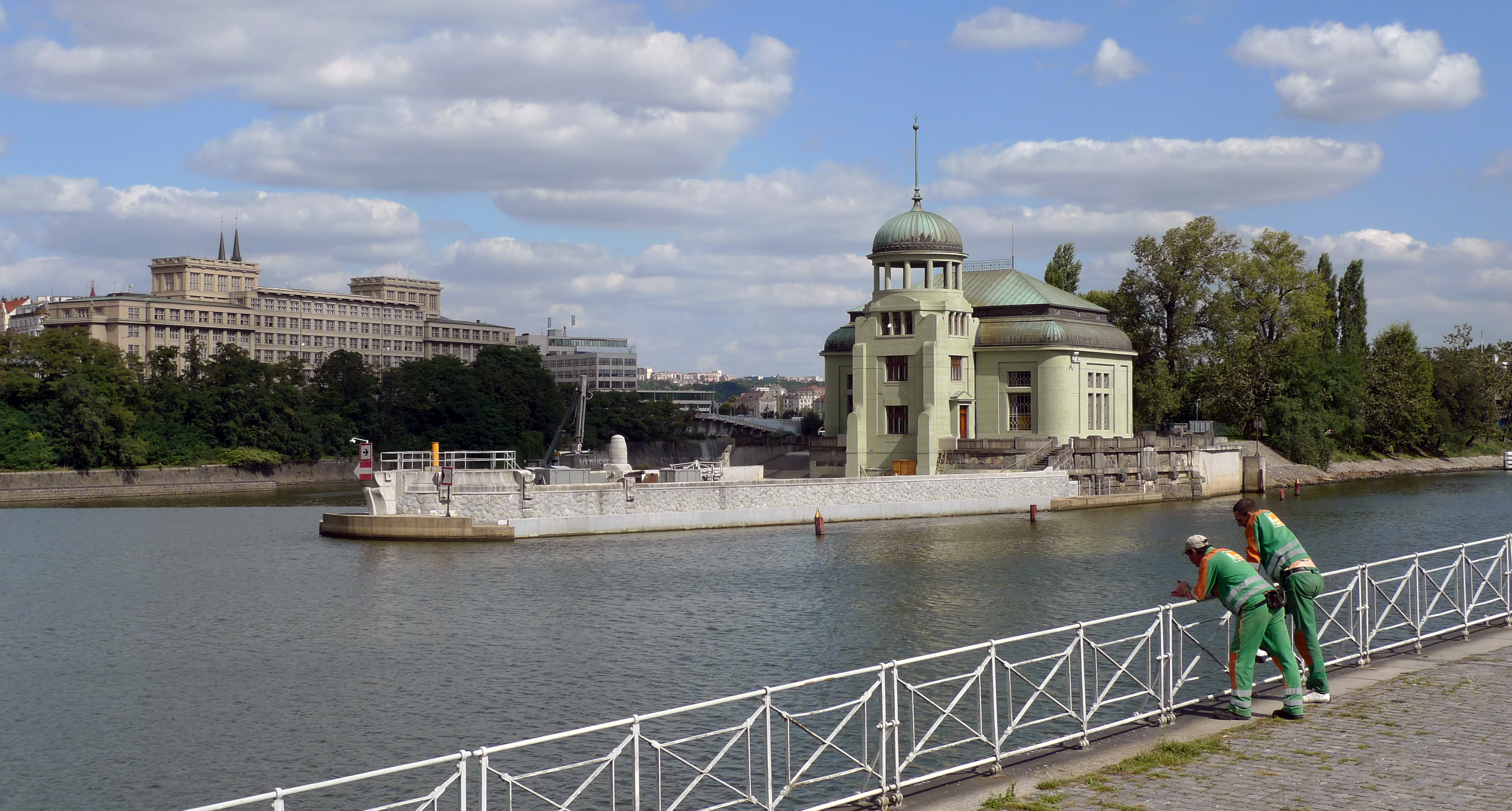 Štvanice Water-power Plant in Prague, Czech Republic